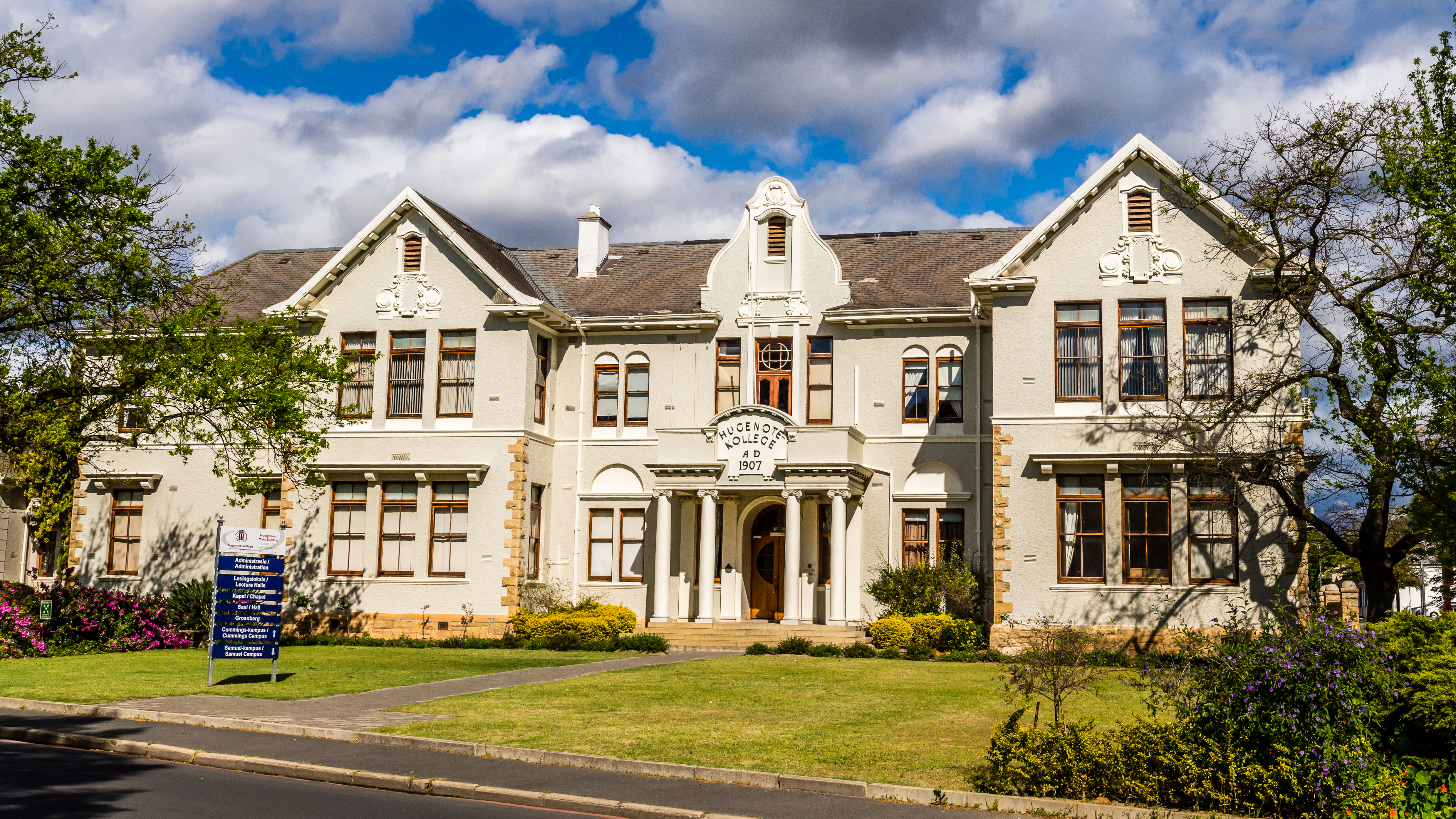 This media shows a South African Protected Site with SAHRA file reference 9/2/106/0020.